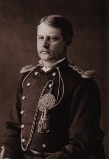 photo of soldier James Calhoun.